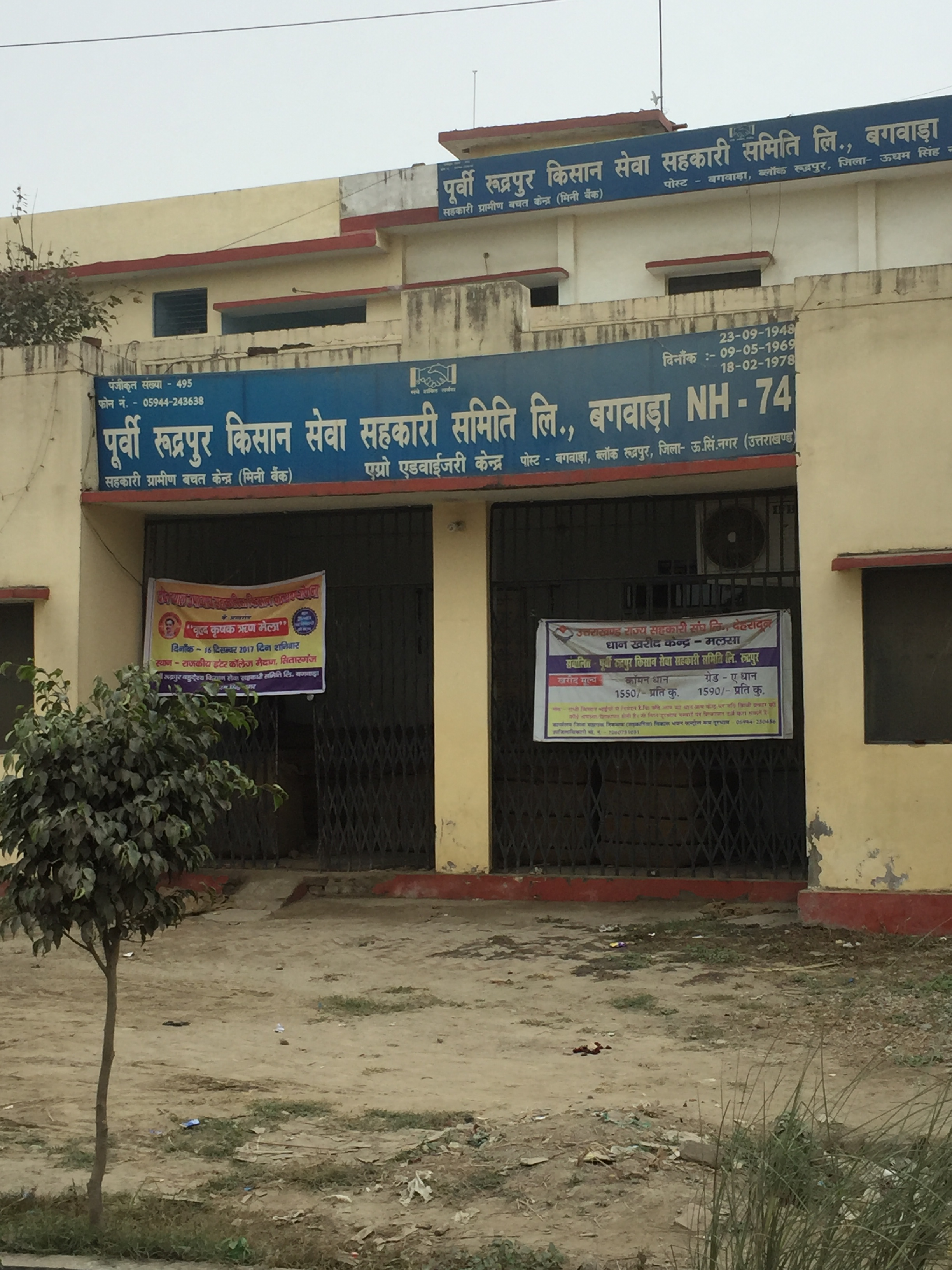 rudrapur mandi, bagwara, uttarakhand